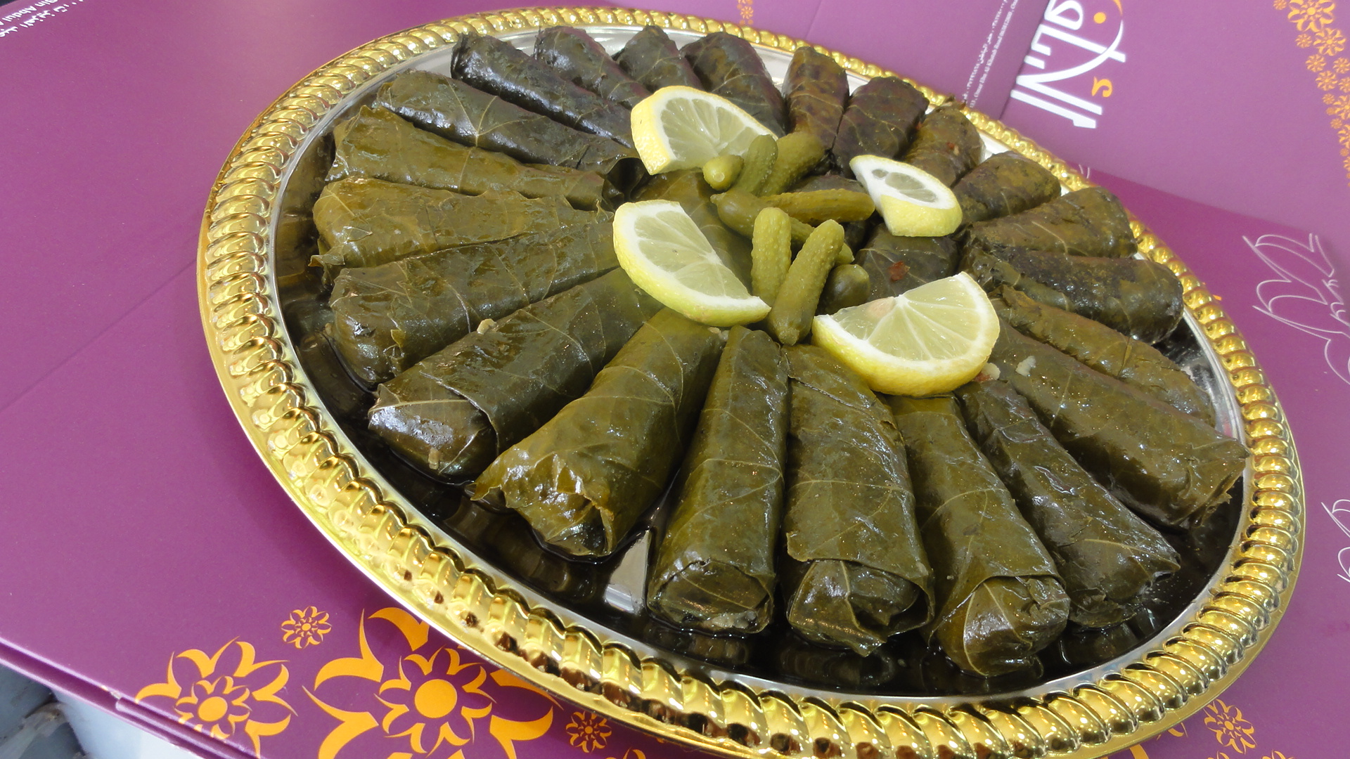 grape leaves stuffed with spicy rice This is an image of food from Egypt